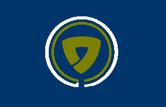 Flag of Wakuya Miyagi